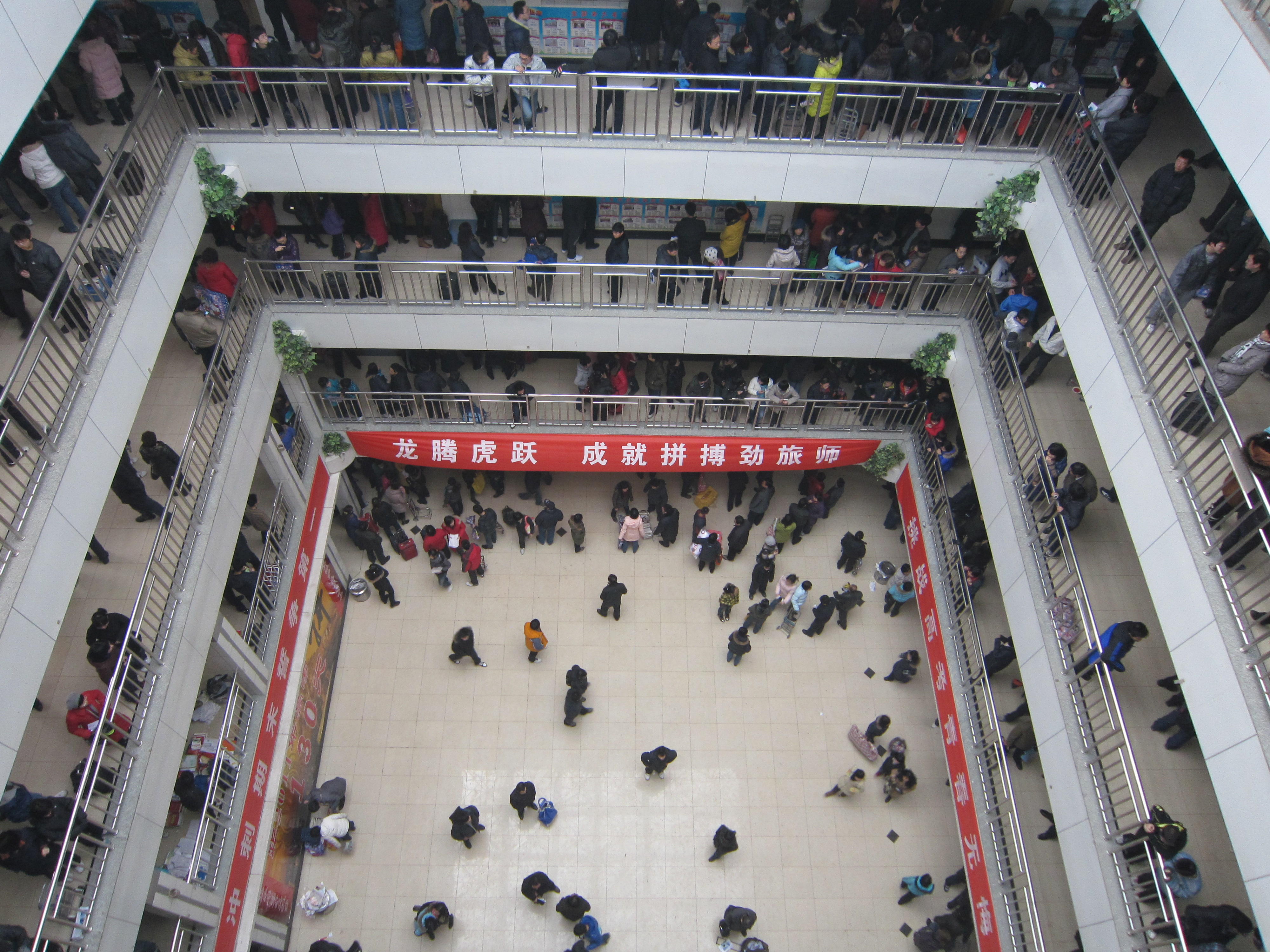 Mingzhi Building in Hengshui High School, Hebei.